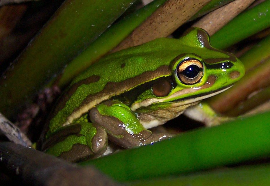 A Green and Golden Bell Frog, (Litoria aurea), showing a mostly green colouration, from Homebush Bay, Sydney.